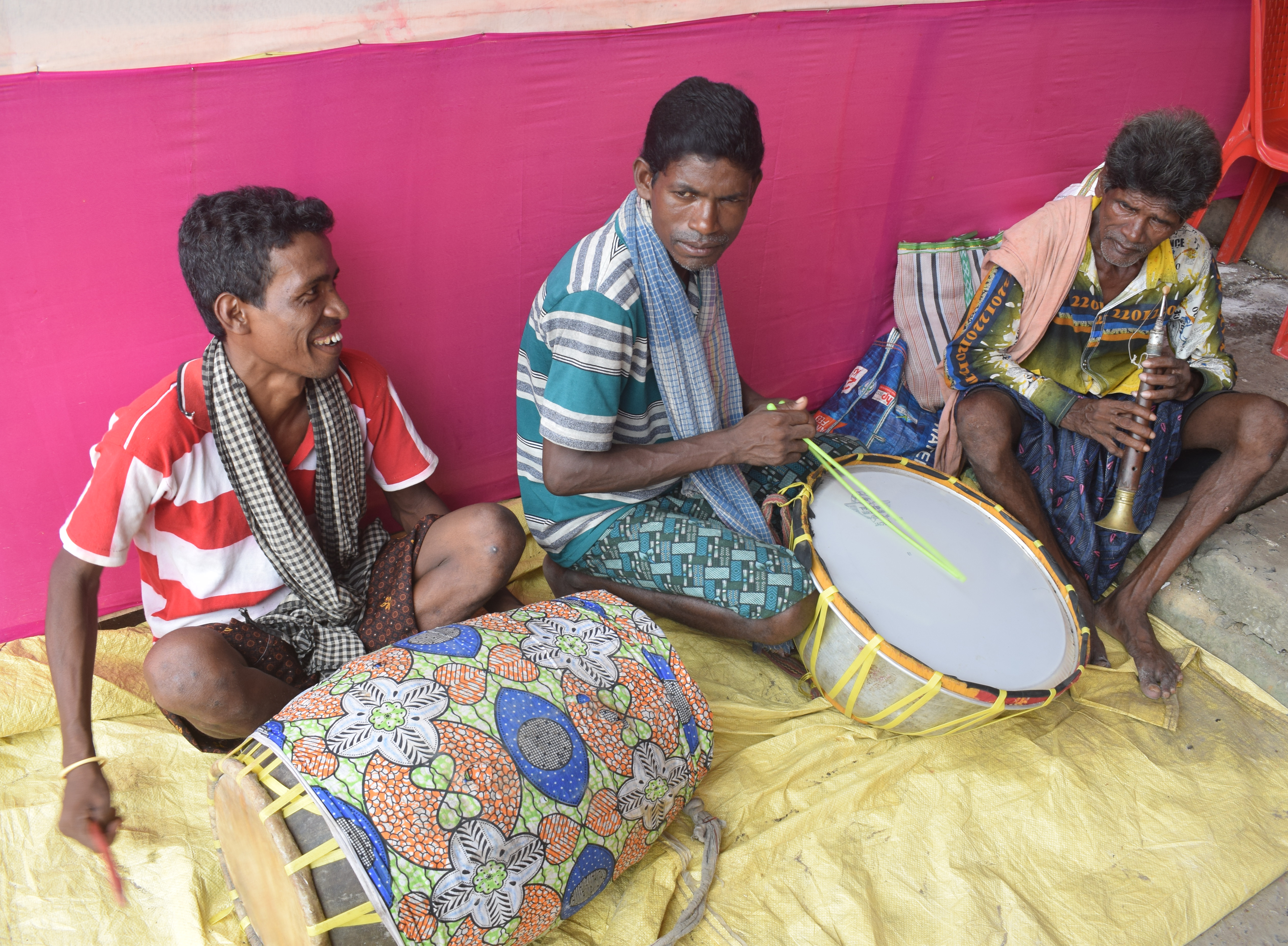 A Group of Dholak Players in Odisha This photo has been taken in the country: India